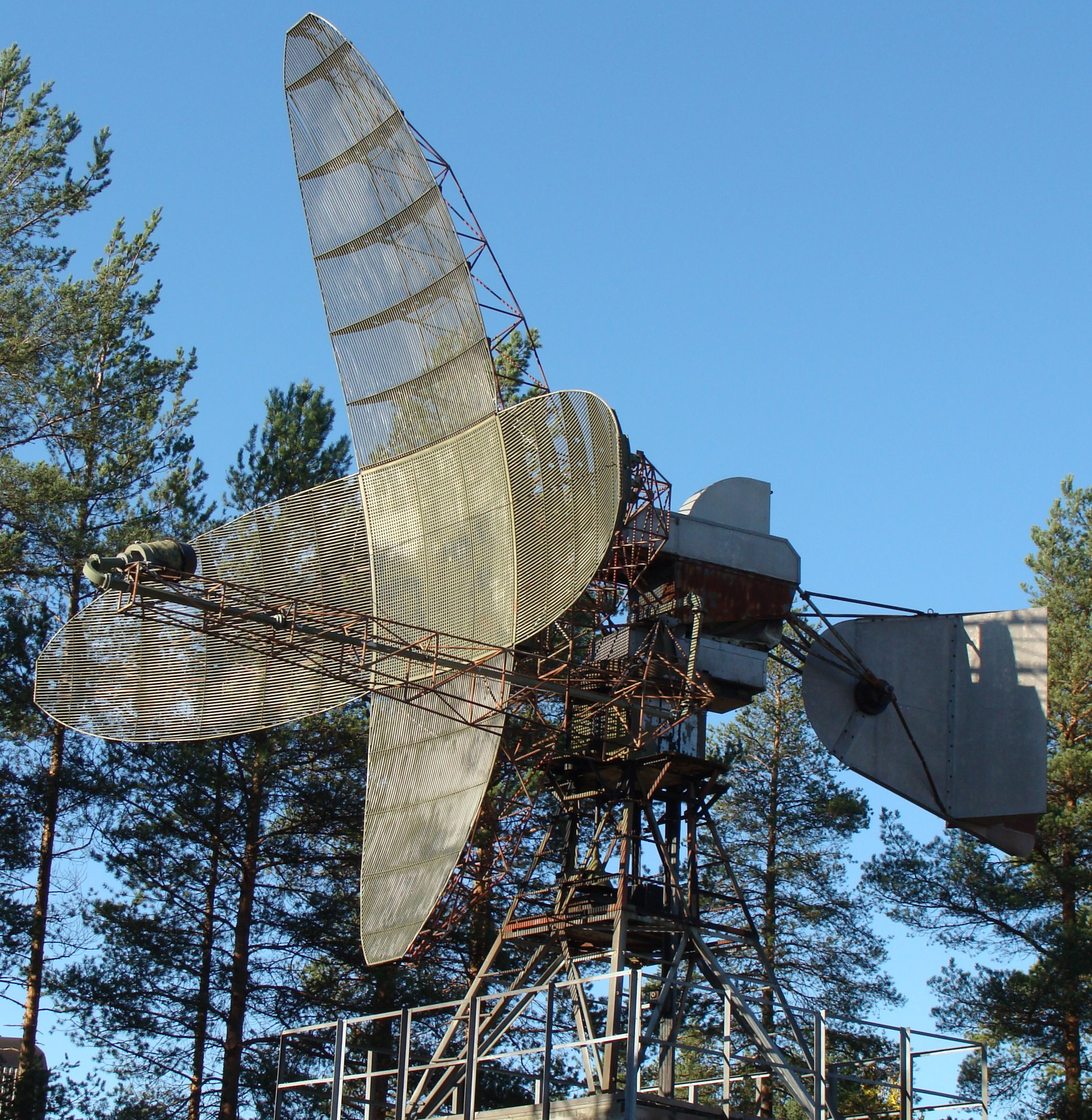 Radar antenna in museum. Keski-Suomen Ilmailumuseo Finland